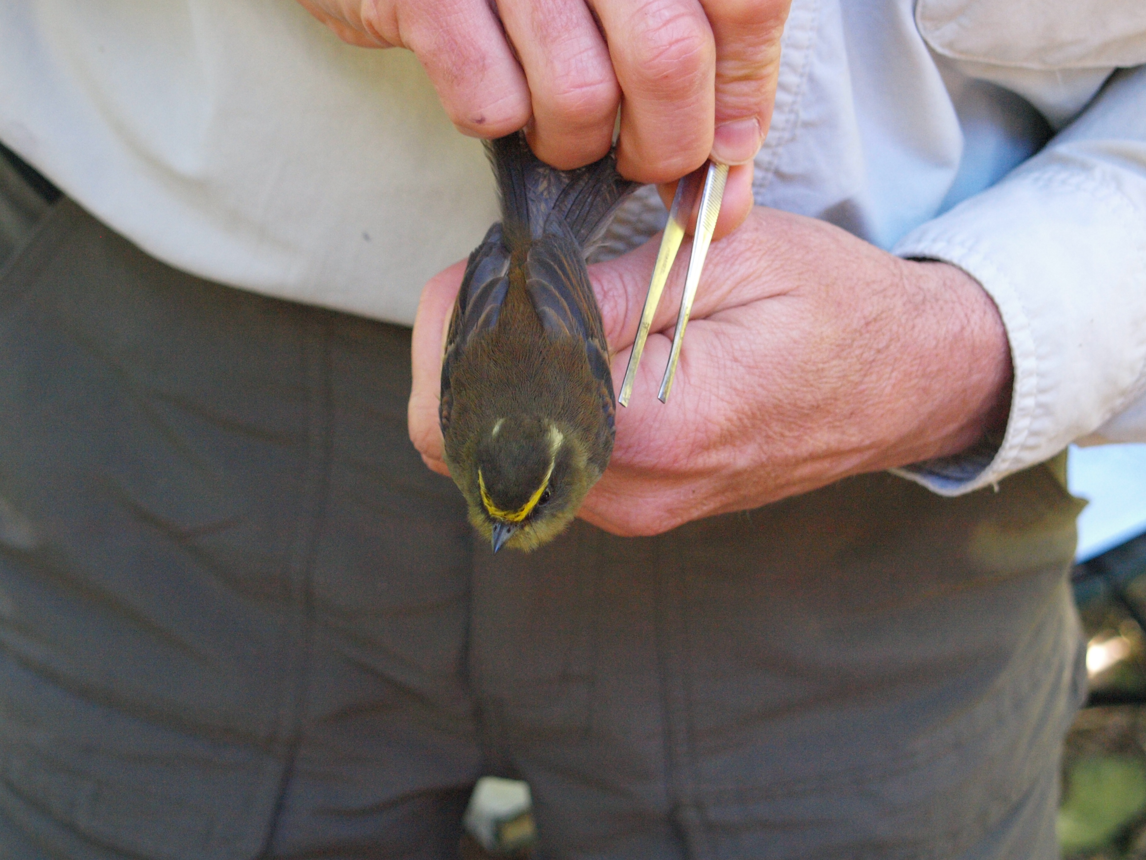 Top-view of Yellow-bellied Chat-Tyrant